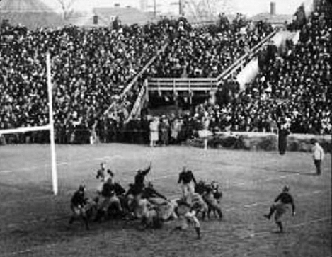 Harvard's Charles Brickley drop kicking a field goal to beat Dartmouth.